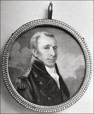 Photo of a miniature depicting Tobias Lear, once owned by his granddaughter Mrs. Louisa Lear Eyre.